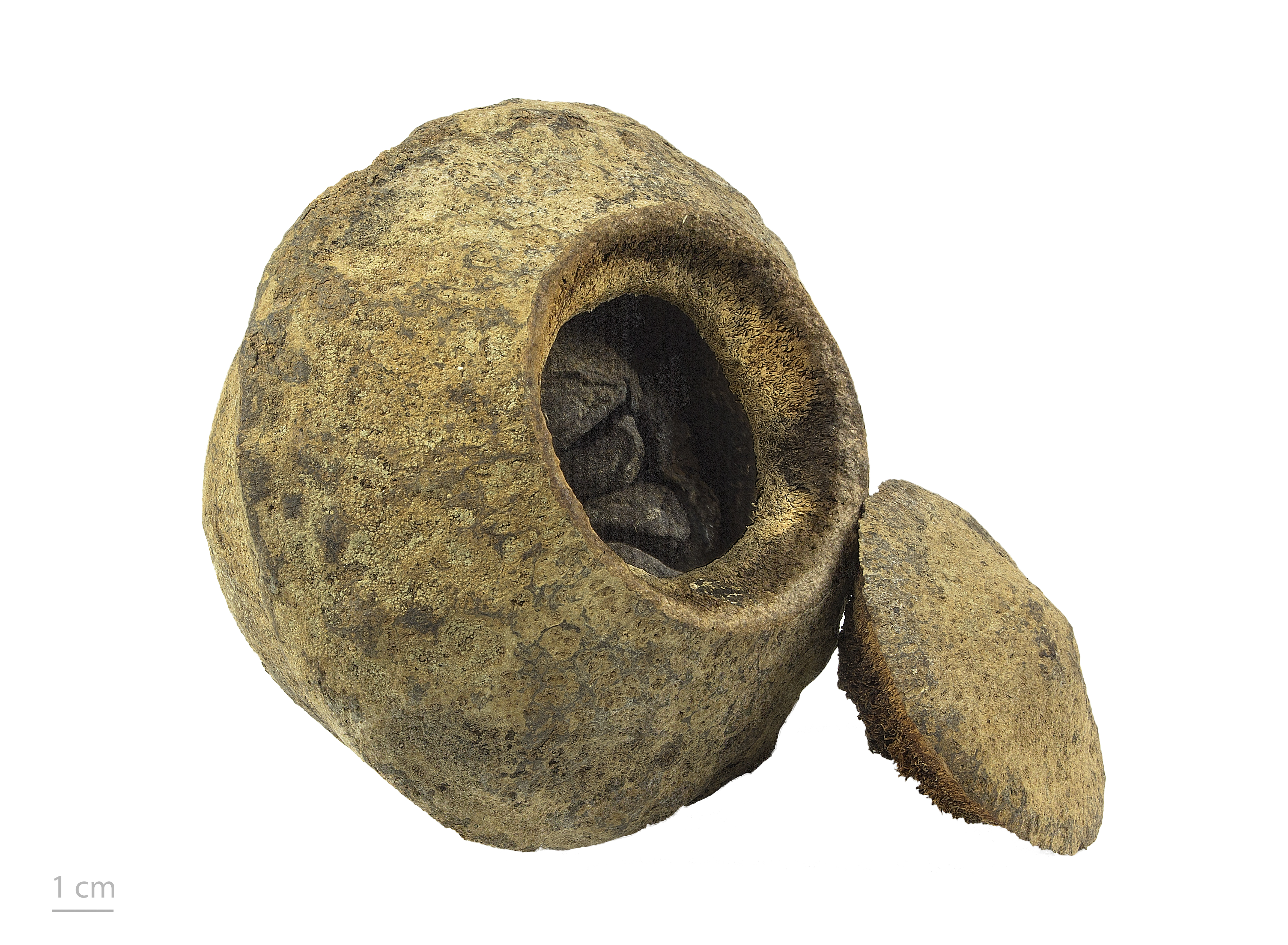 Lecythis zabucajo, monkey pot, open fruit